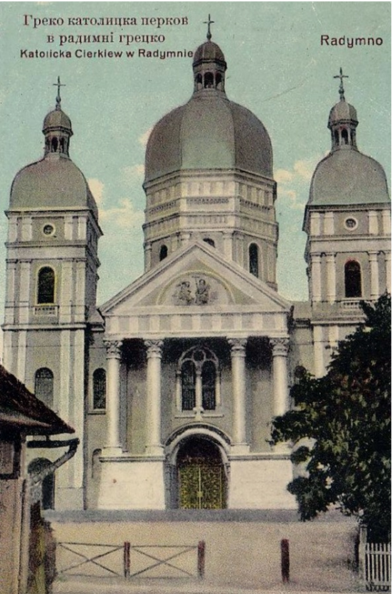 Dormition of the Blessed Virgin Ukrainian church in Radymno. Built in 1906-1911, destroyed in May 1961.